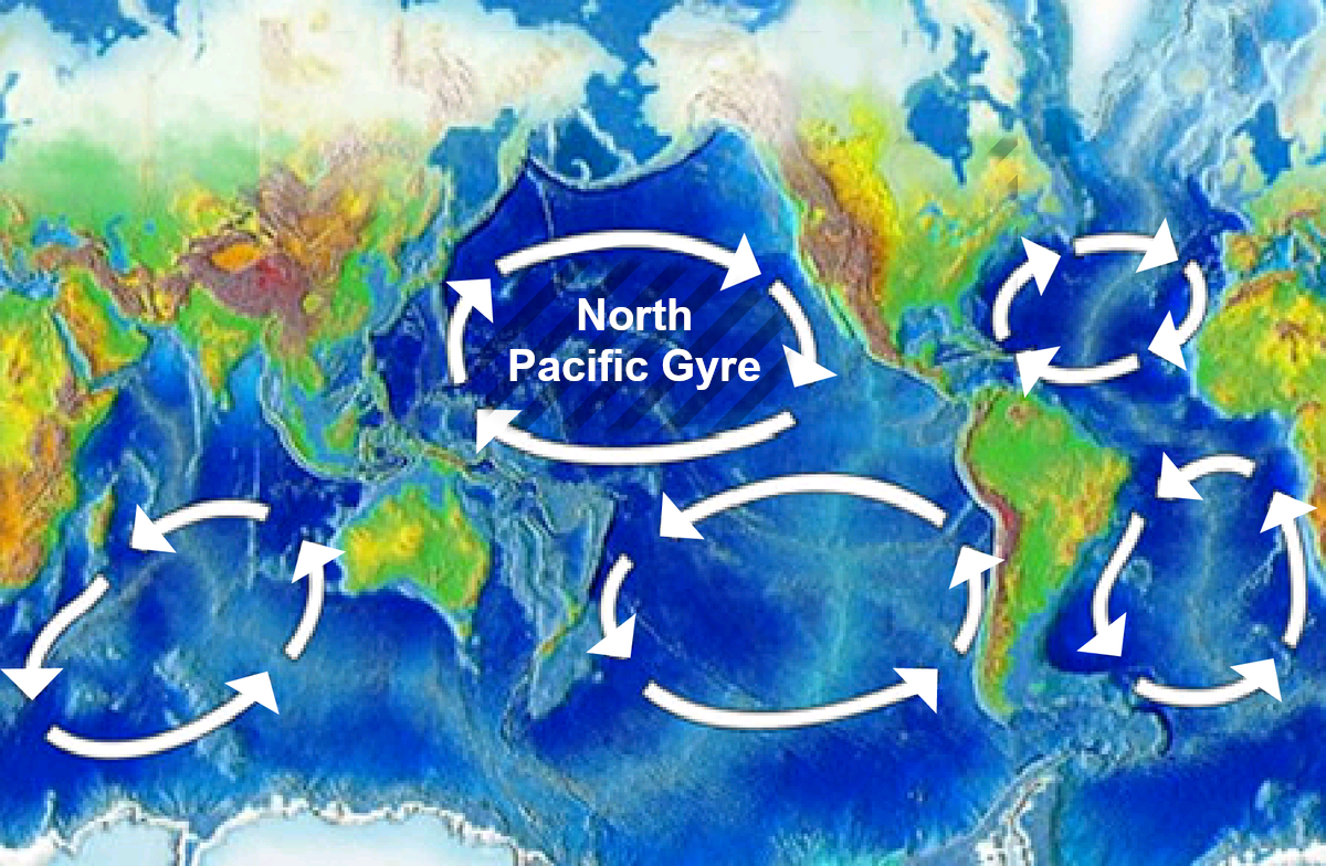 Original version is Image:Oceanic gyres.png. The north pacific gyre is highlighted.